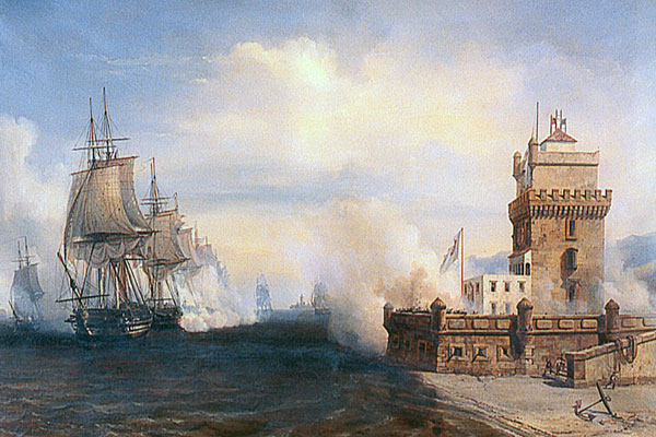 Forcing of the Tagus by the French squadron under Rear admiral Roussin on 11 July 1831. The ships sail before Belém Tower, Suffren leading the line.